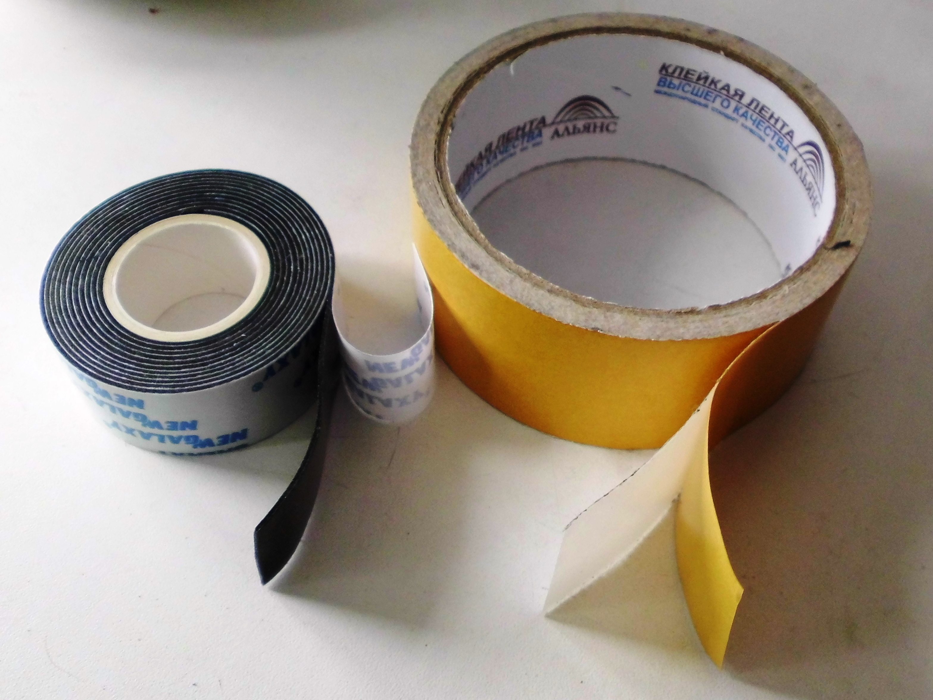 Double-sided tapes.